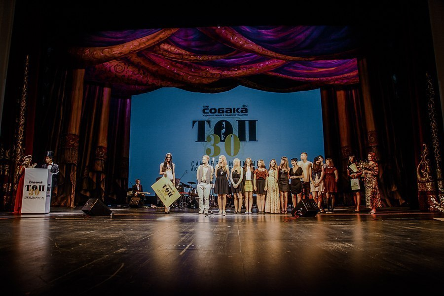 Photo